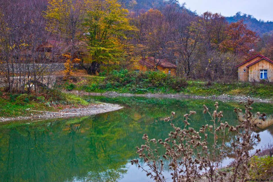 Qusar(sity)